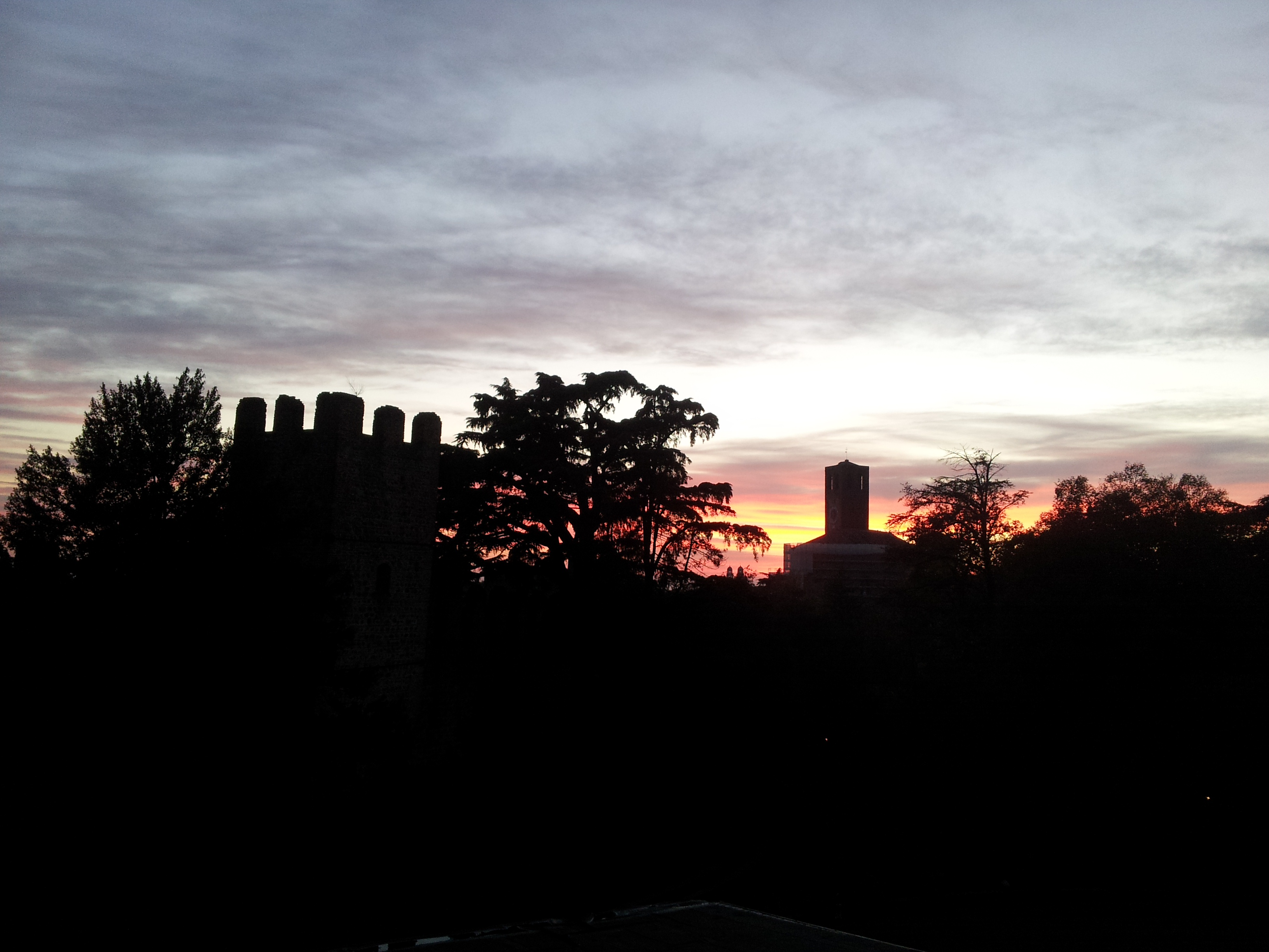 Sunset